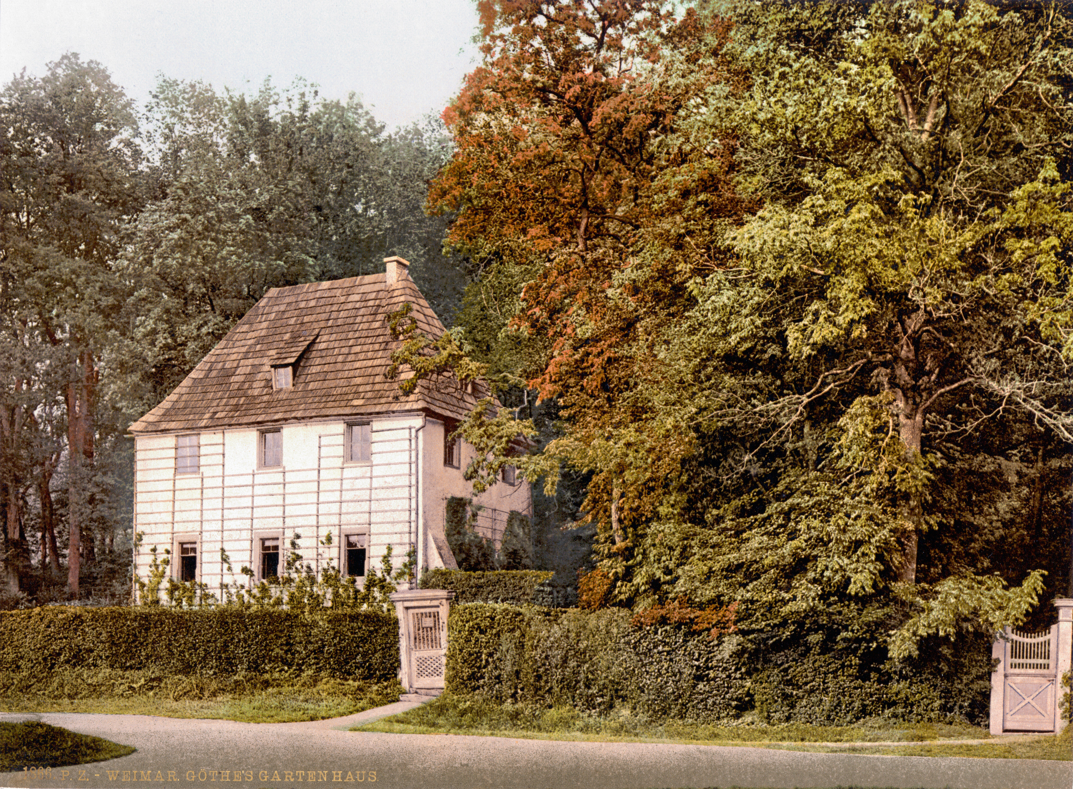 The 'Gartenhaus' of Goethe in Weimar around 1900.